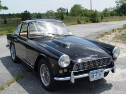 Triumph Italia 2000 coupe Number 58